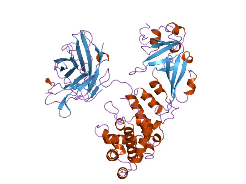 Cartoon representation of the molecular structure of protein registered with 1xdt code.